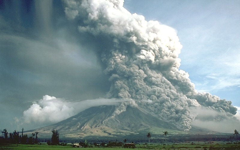 Pyroclastic flows at Mayon Volcano, Philippines, 1984. Pyroclastic flows descend the south-eastern flank of Mayon Volcano, Philippines. Maximum height of the eruption column was 15 km above sea level, and volcanic ash fell within about 50 km toward the west. There were no casualties from the 1984 eruption because more than 73,000 people evacuated the danger zones as recommended by scientists of the Philippine Institute of Volcanology and Seismology.